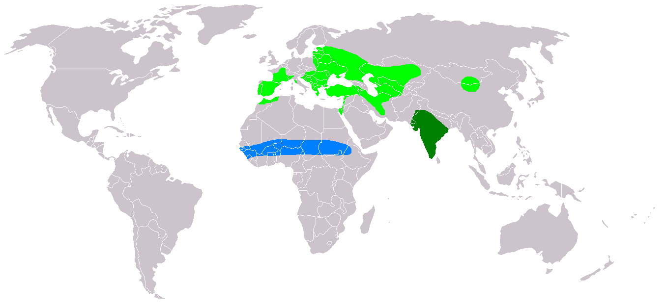 Distribution of Circaetus gallicus nesting area resident all year wintering area